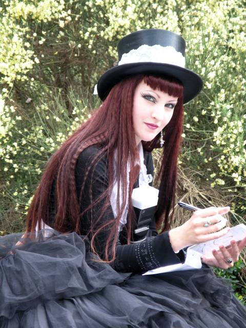 Viona Ielegems at Work at the Wave Gotik Treffen 2005.